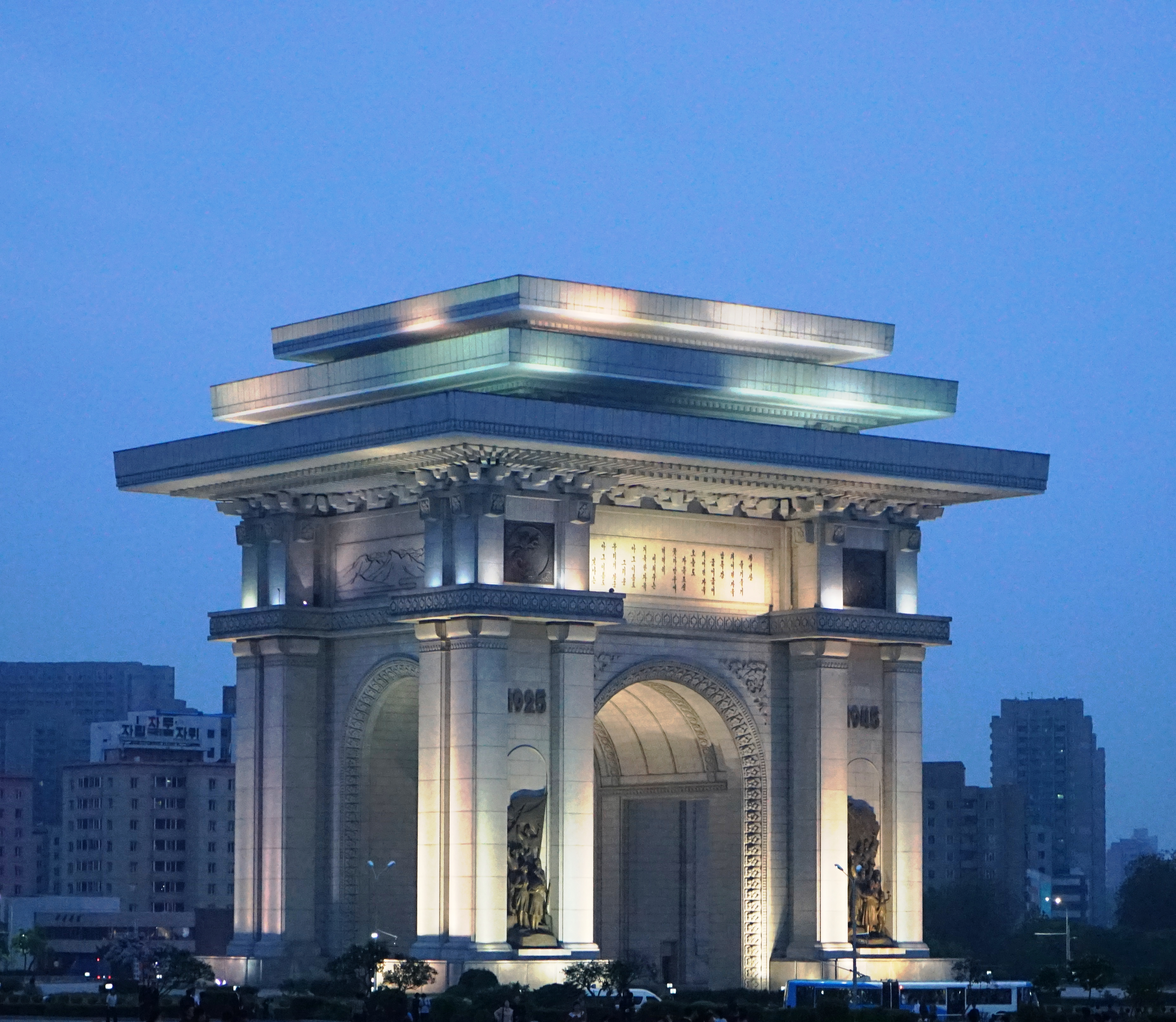 Night view of Arch of Triumph, Pyongyang, North Korea